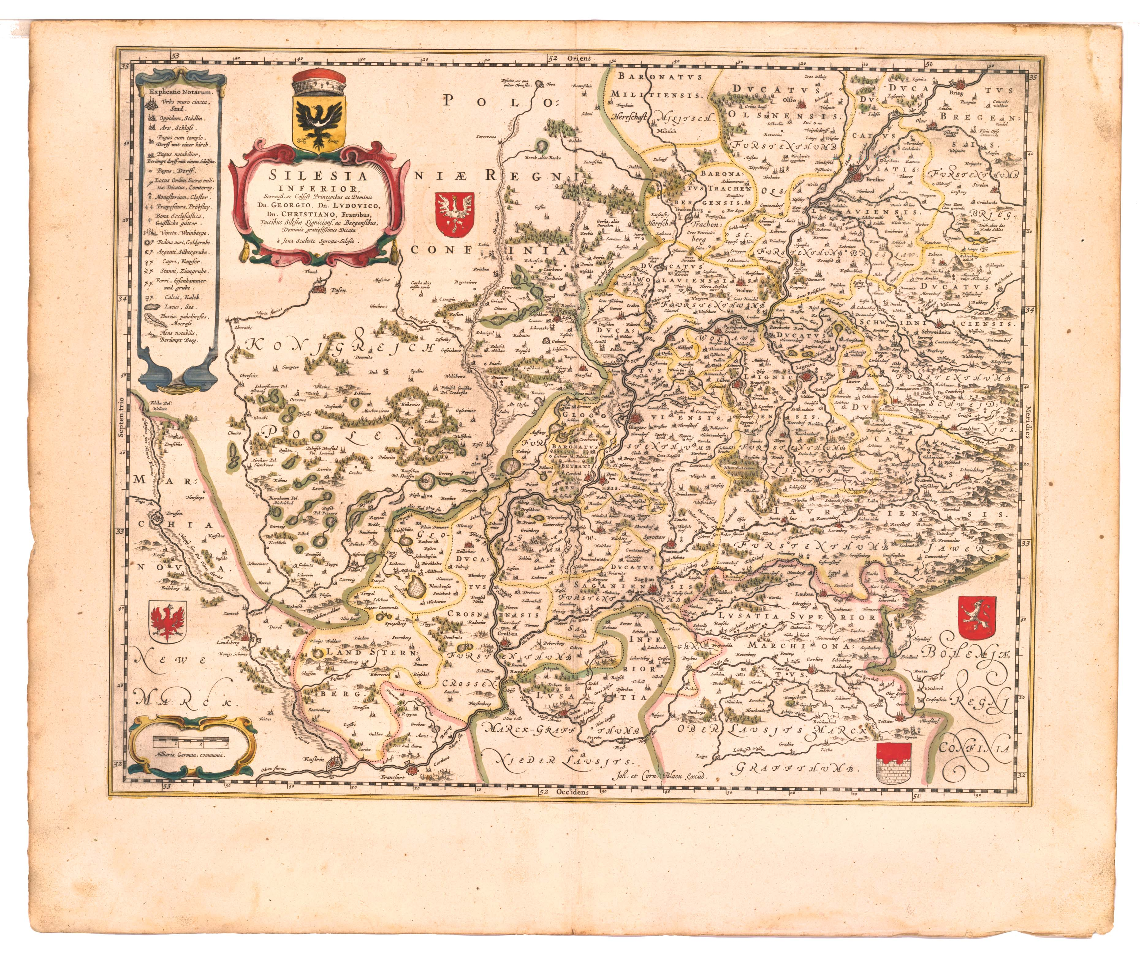 Title Silesia Inferior (Lower Silesia) according to Jonas Scultetus from "Theatrum Orbis Terrarum, sive Atlas Novus in quo Tabulæ et Descriptiones Omnium Regionum, Editæ a Guiljel et Ioanne Blaeu"(Theater of the World, or a New Atlas of Maps and Representations of All Regions, Edited by Willem and Joan Blaeu), 1645.